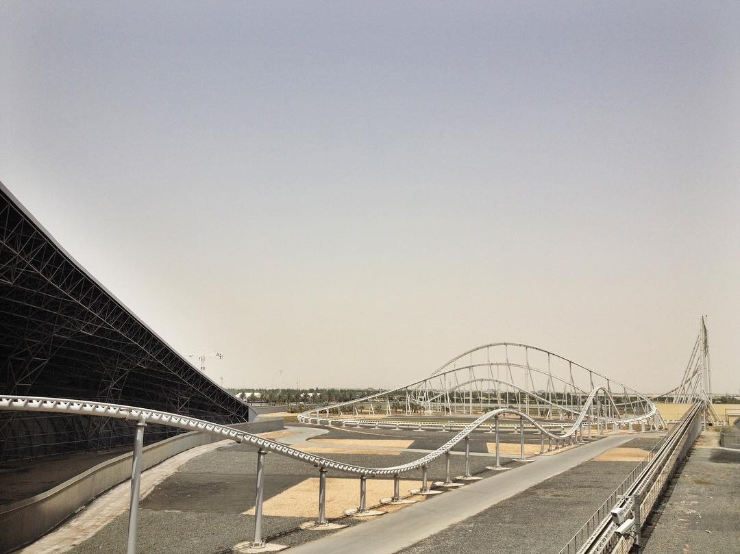 Rollercoaster view from the inside of Ferrari World, Abu Dhabi